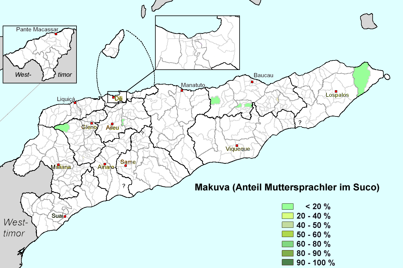 Percentage of people using Makuva as mother tongue in sucos of East Timor (Timor-Leste), according census 2010